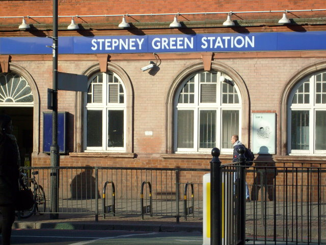 Stepney Green Tube Station, November 23 2007